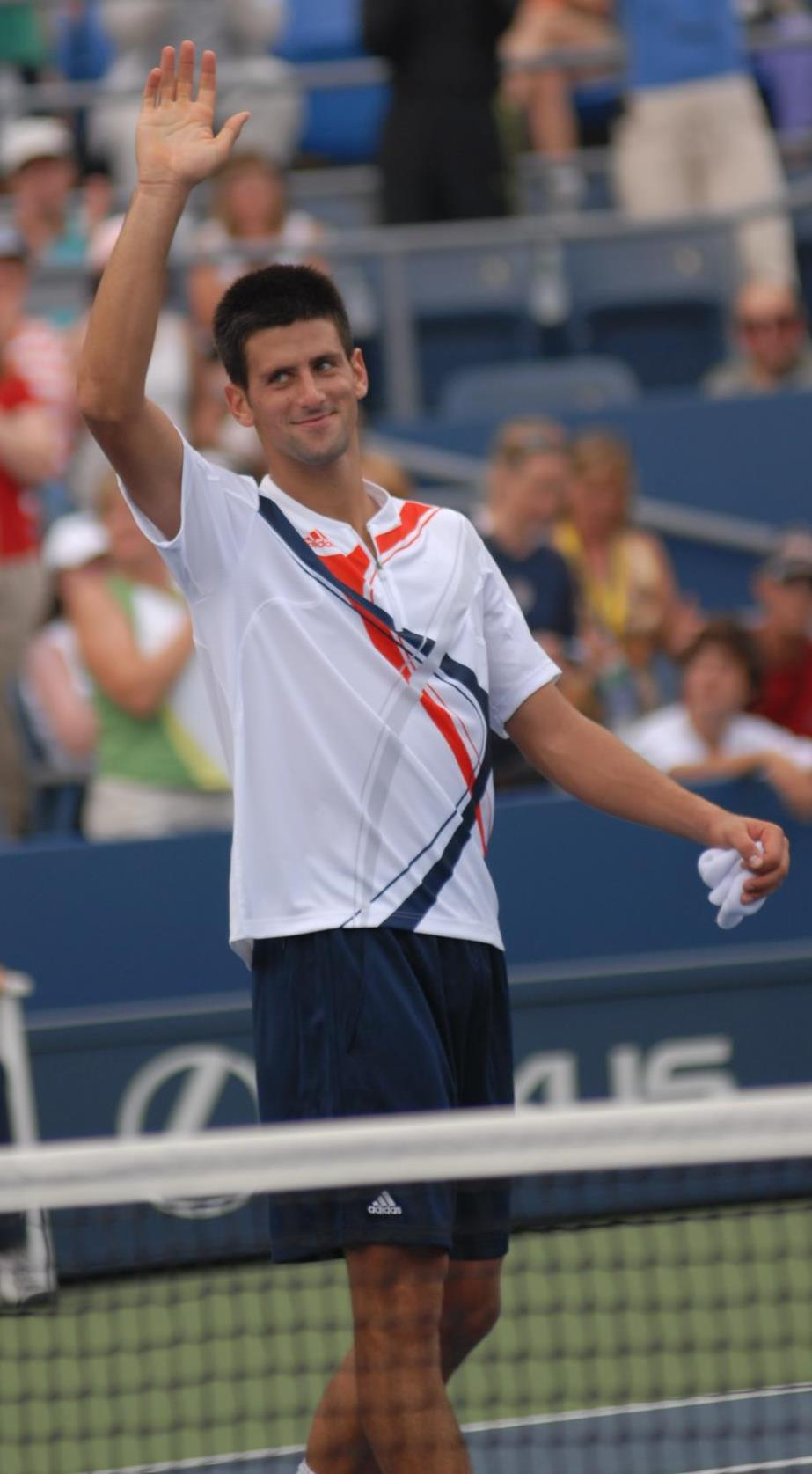 Novak Đoković at 2007 US Open